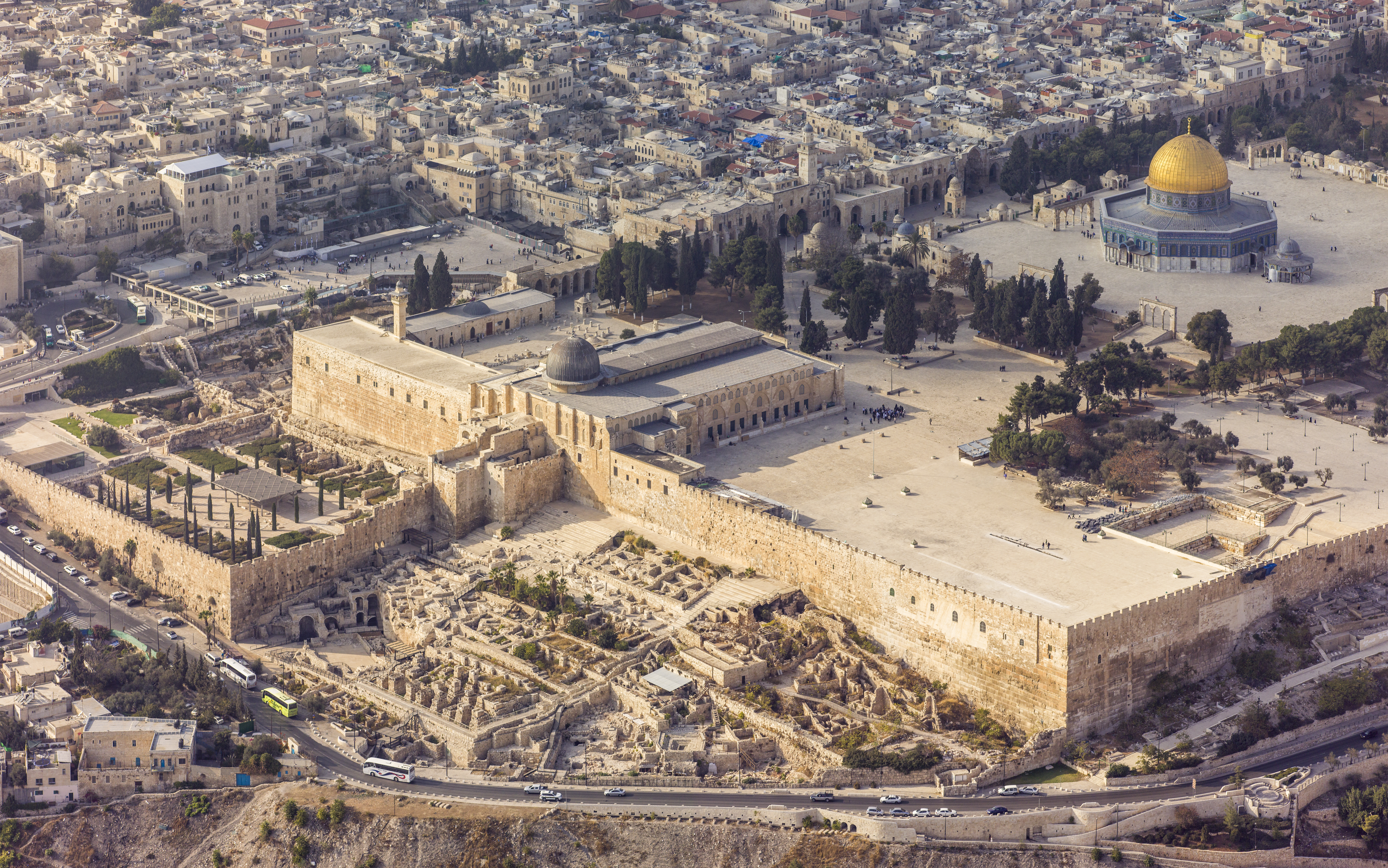 Aerial SE exposure of Al-Aqsa Mosque (Arabic:المسجد الاقصى) and The Dome of the Rock (Arabic: مسجد قبة الصخرة, Hebrew: כיפת הסלע), on the Temple Mount, (Hebrew: הַר הַבַּיִת, Arabic: الحرم القدسي الشريف) in the Old City of Jerusalem ((Hebrew: העיר העתיקה, Arabic: البلدة القديمة). Al-Aqsa is considered to be the third holiest site in Islam after Mecca and Medina.